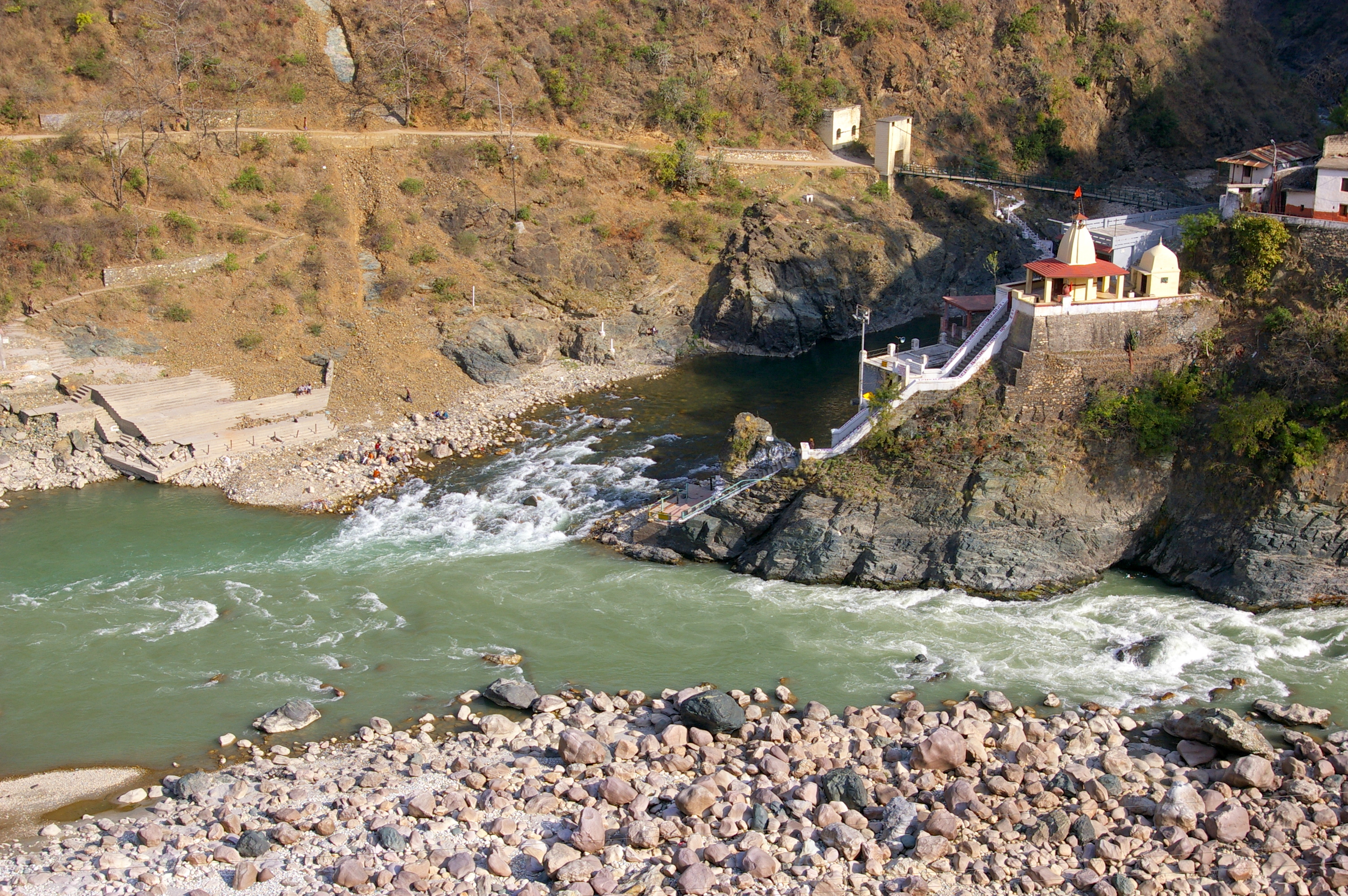 Rudraprayag - Confluence of Alaknanda and Mandakini rivers, two of the major tributaries of Ganga